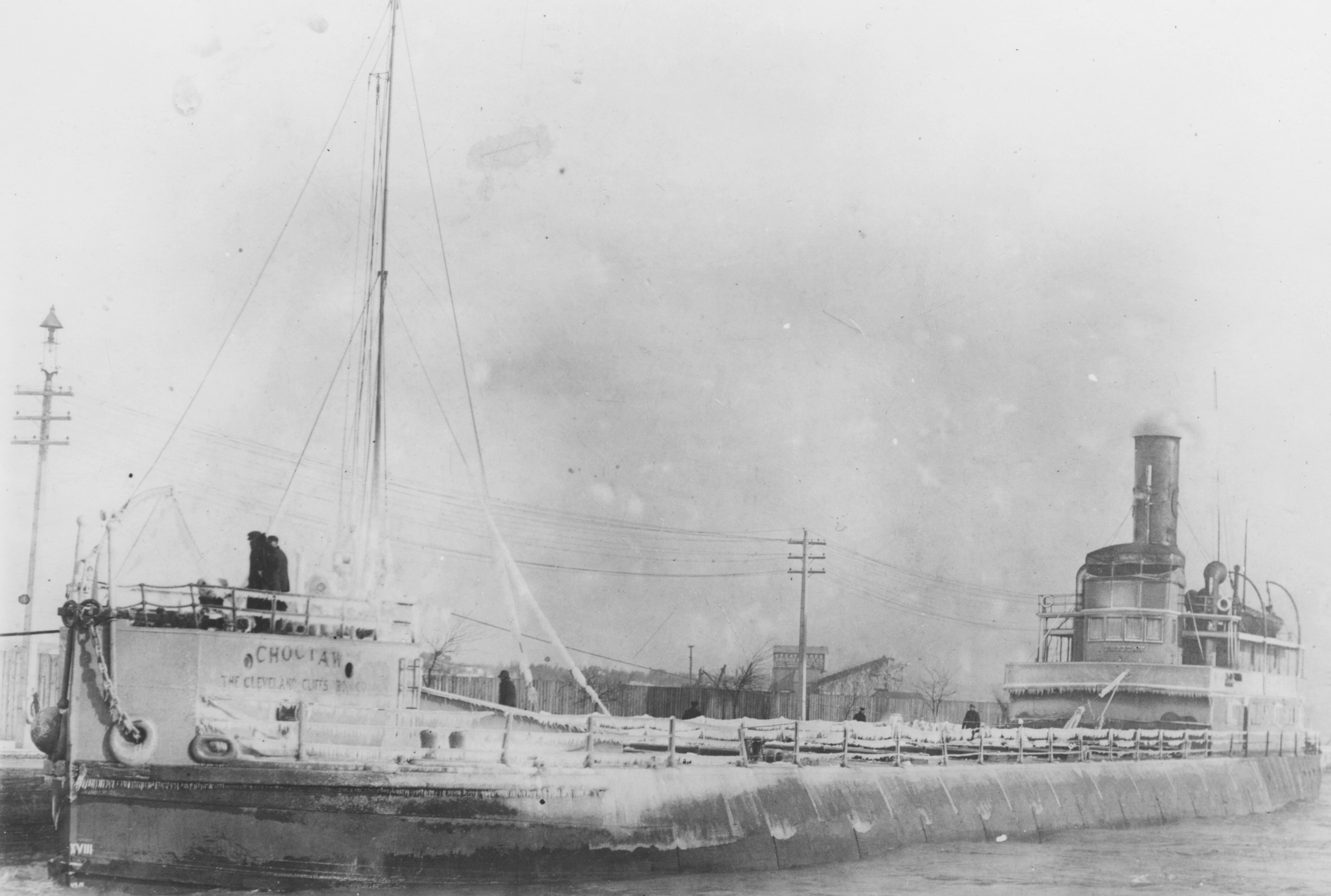 The Choctaw prior to her sinking